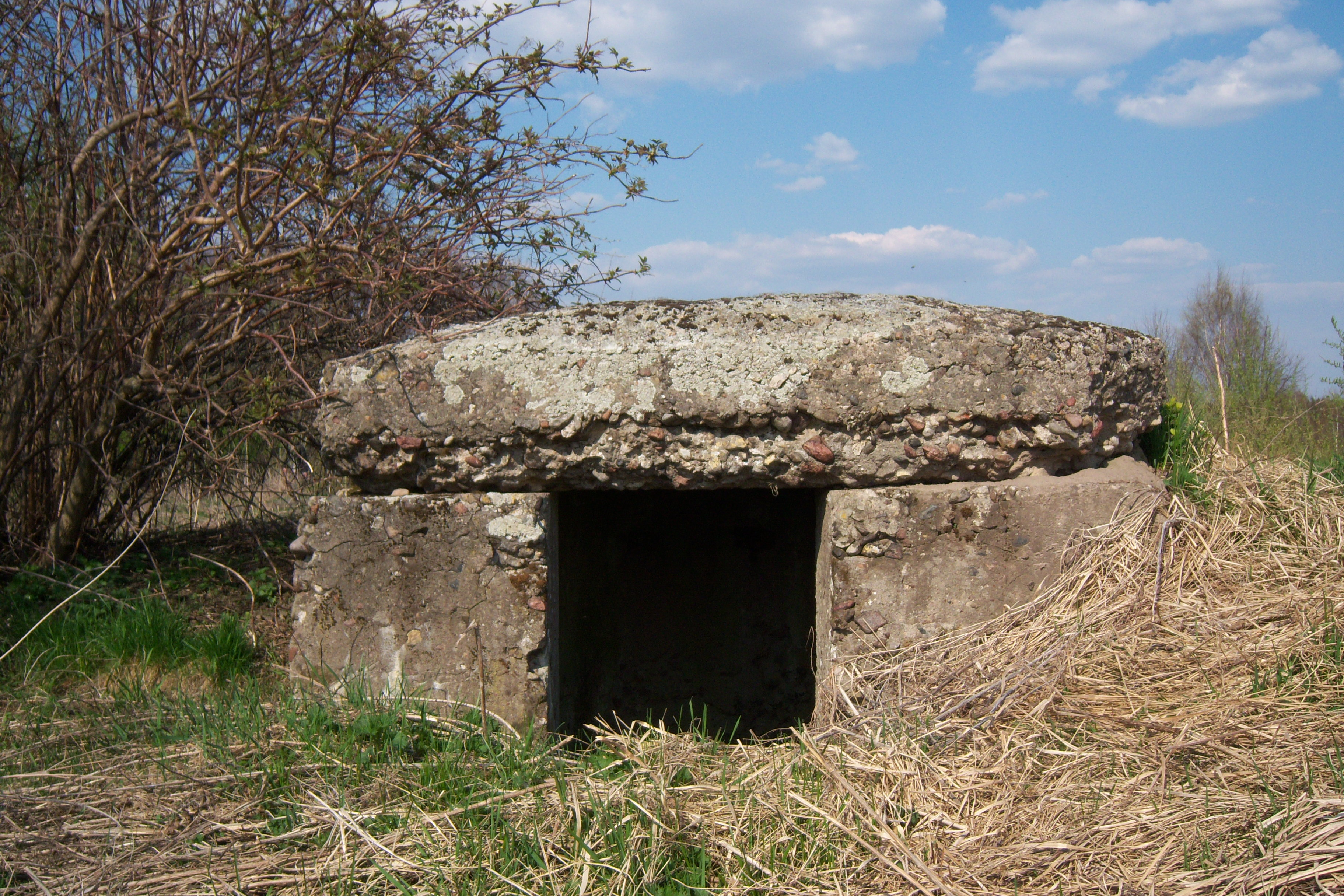 Palemonas Fort, Kaunas, Lithuania